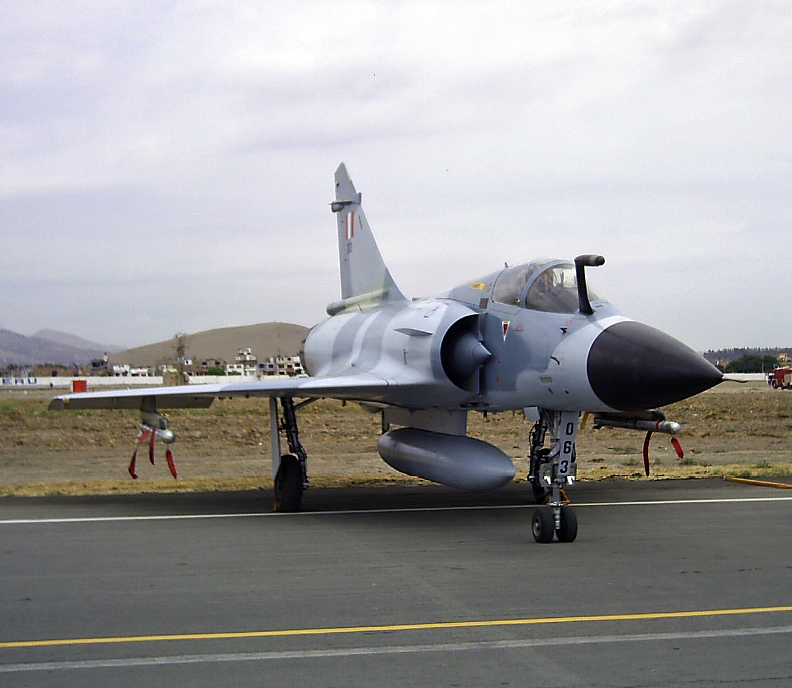 Mirage 2000P on display at Falcon - Condor 2007 festival, Lima.